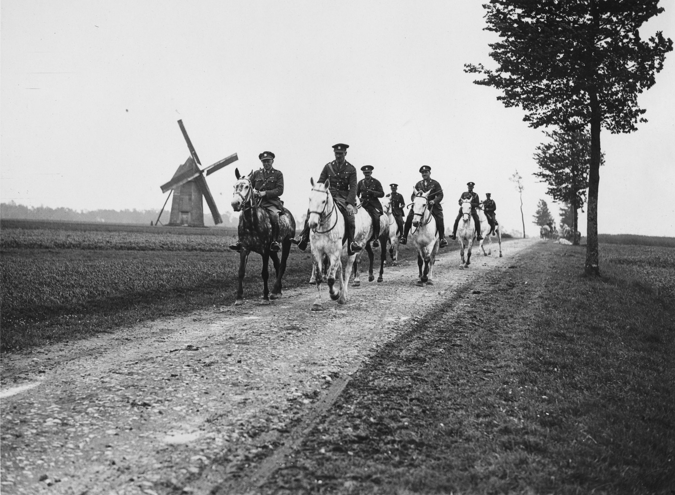 CO of the Royal Scots Greys with his staff near